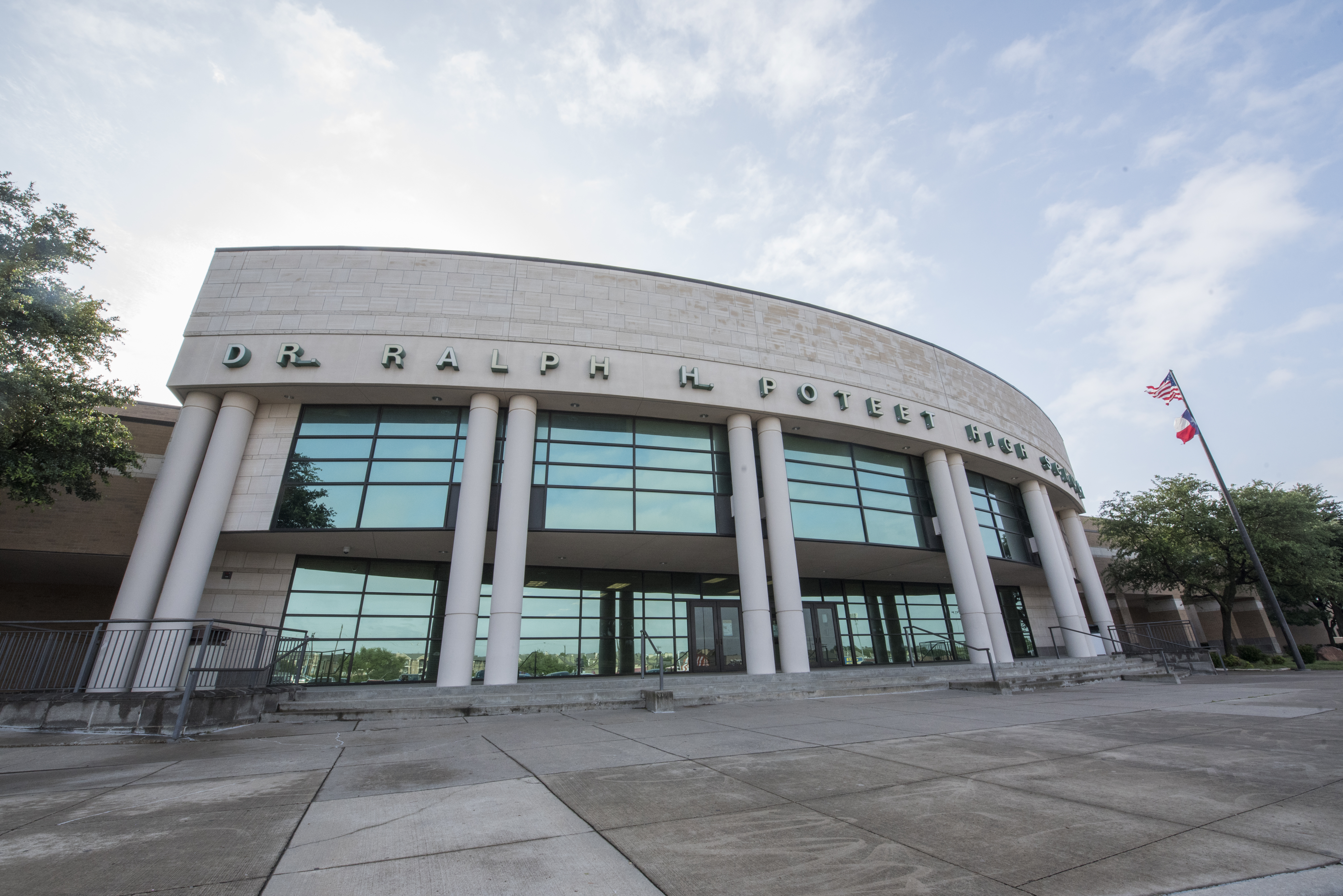 Outside of Poteet High School in Mesquite, Texas